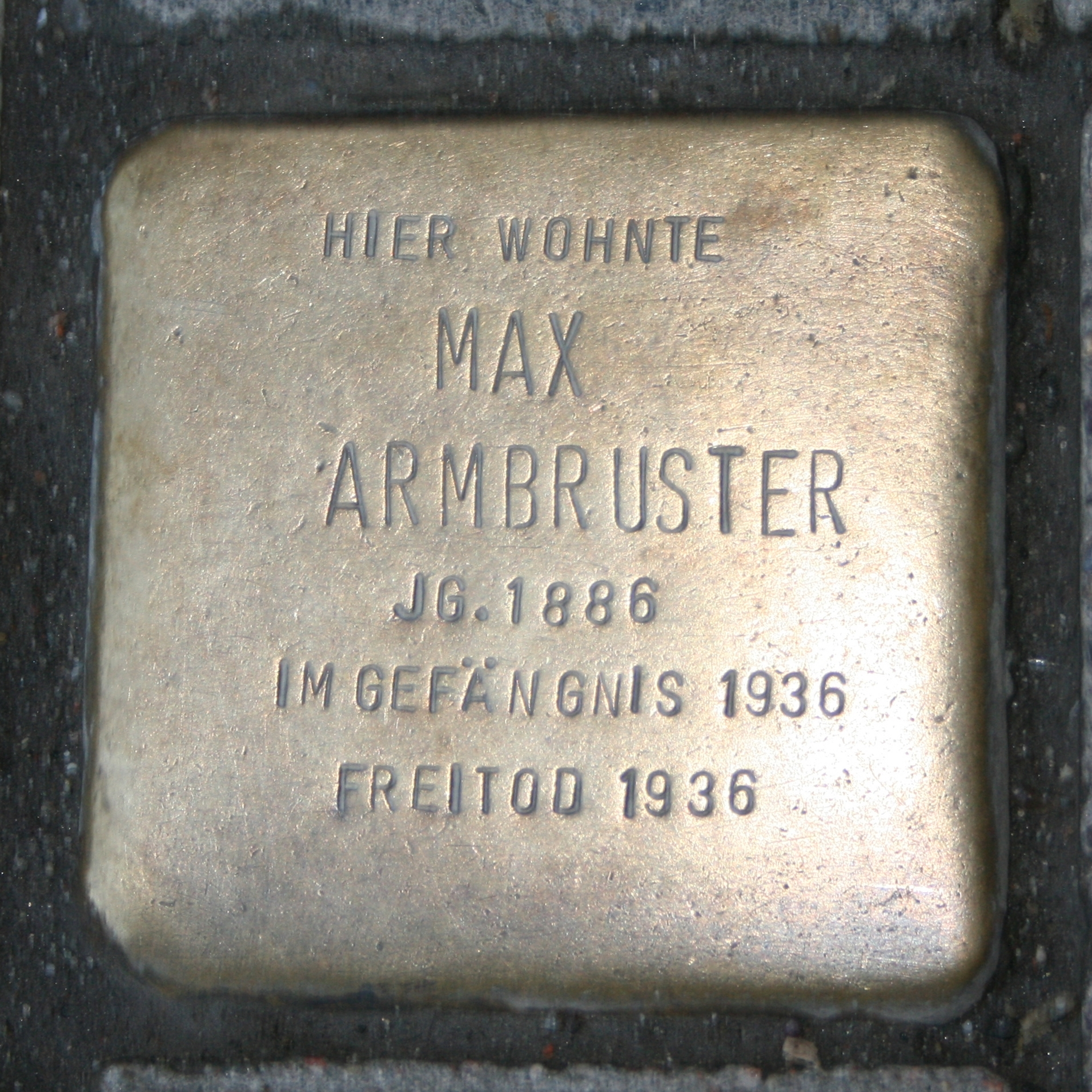 Stolperstein for Max Armbruster, Weidenbaumsweg 21 A (19) in Hamburg-Bergedorf